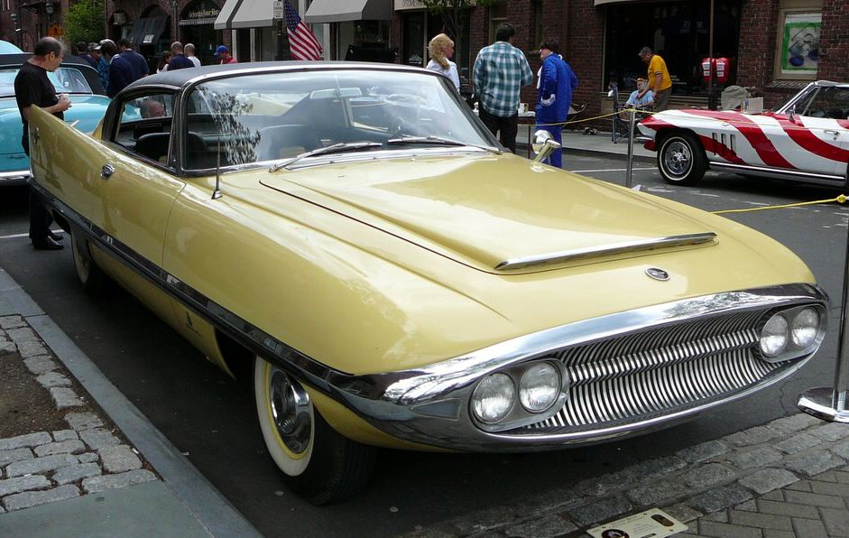 1958 Chrysler Dual-Ghia Coupe Prototype.